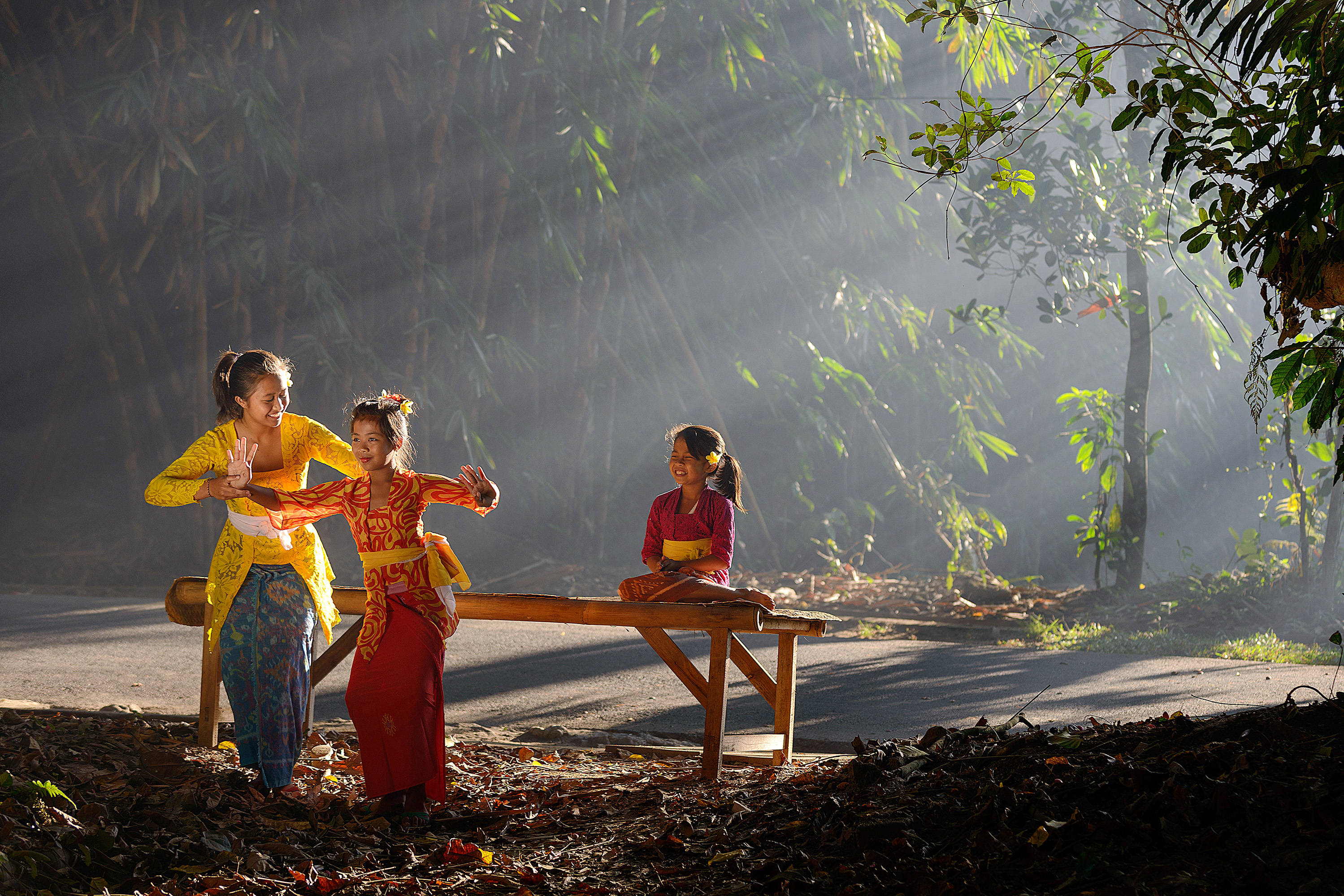 Penglipuran Village is a tourist village in Bali which is famous for being a clean village and still maintaining its customs. A beautiful village surrounded by bamboo forests that are indeed preserved.